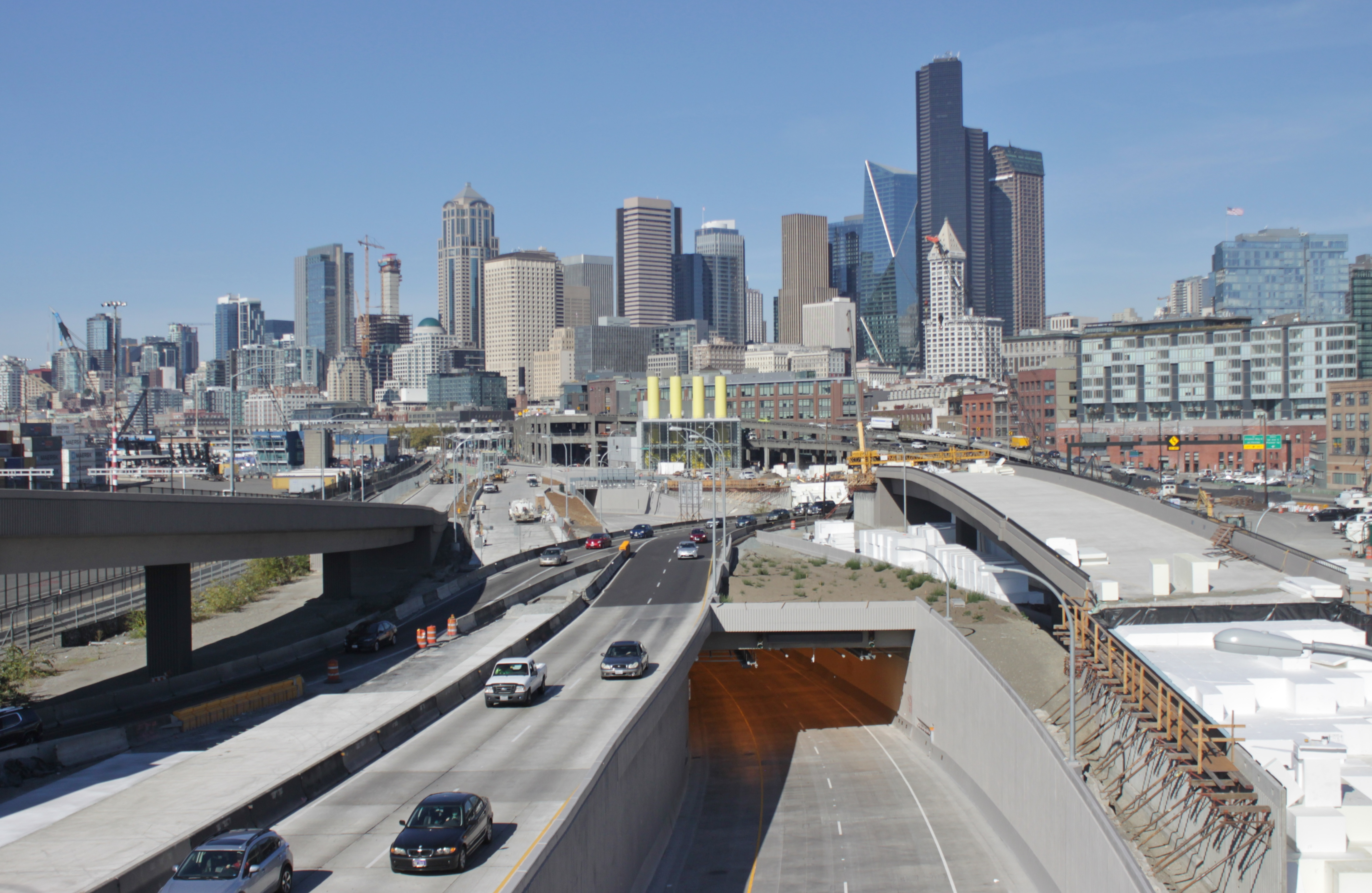 The nearly-complete south portal of the SR 99 Tunnel in Seattle, Washington, US.